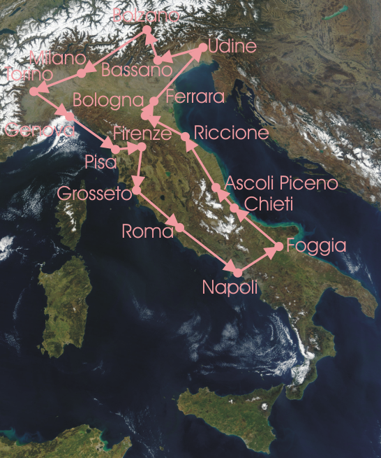 Map of Italy highlighting the stages of 1933 Giro d'Italia